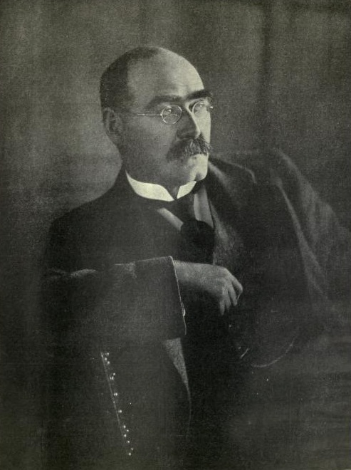 Rudyard Kipling